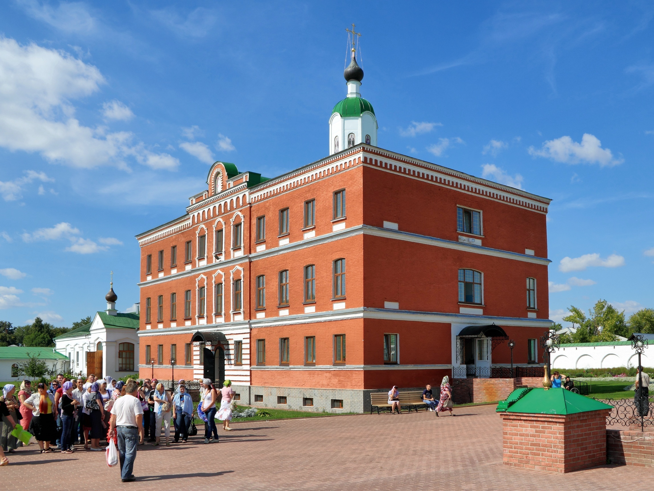 Murom. Transfiguration monastery. Theological College